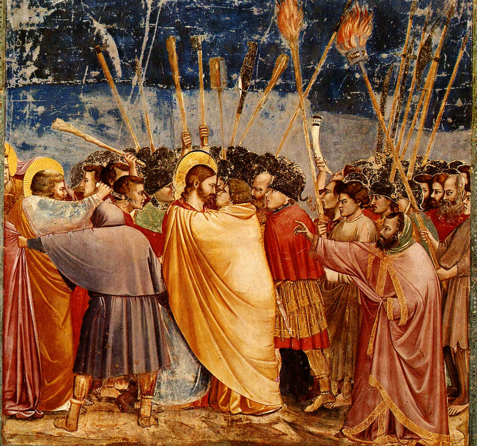 The disciple on the left, who wounds a soldier with his knife, is Saint Peter.